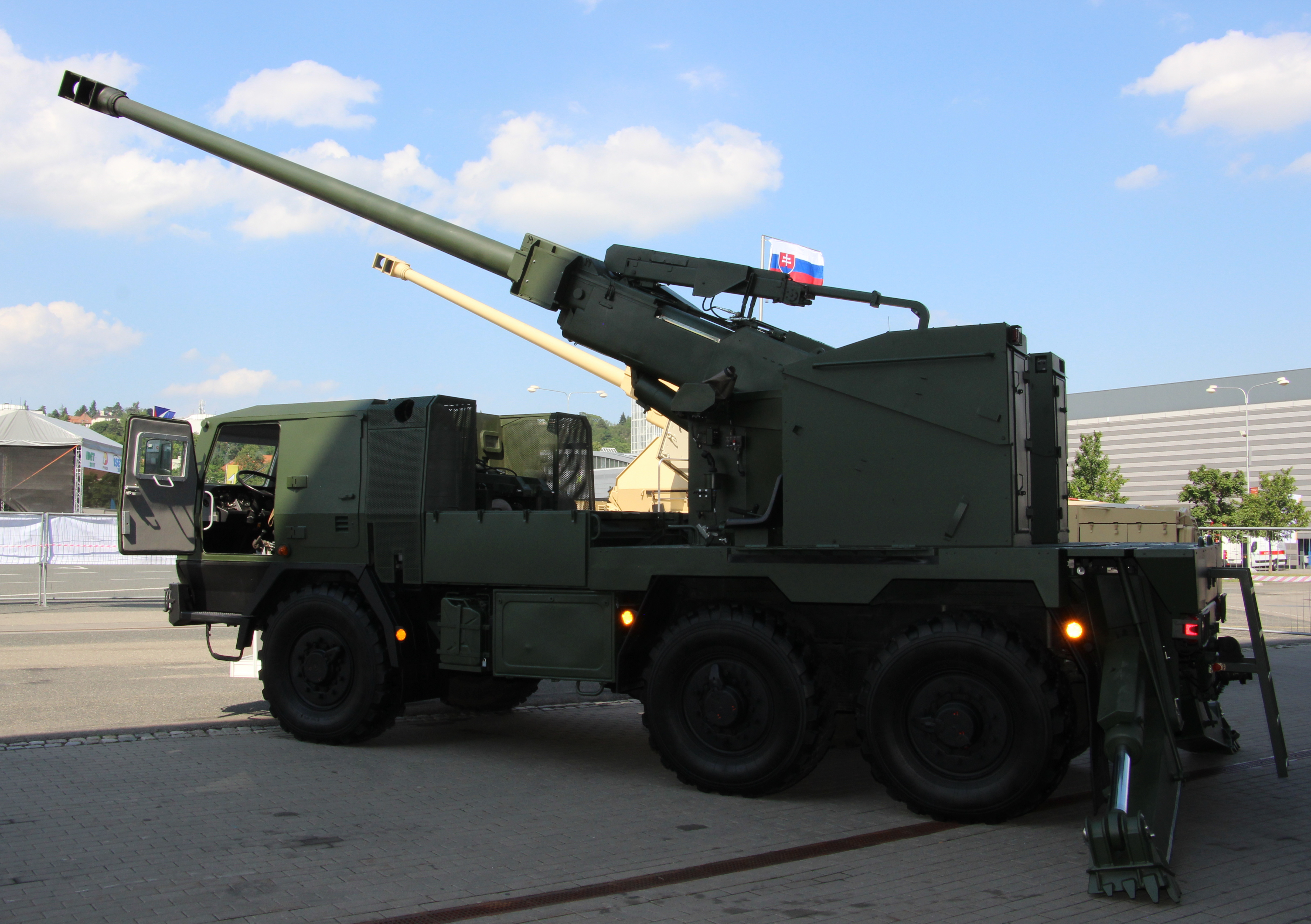 Slovak 155-mm Self-propelled (wheeled) Gun-Howitzer EVA based on a Tatra 6x6 military truck chassis. IDET 2017, Brno Exhibition Center, Czech Republic.